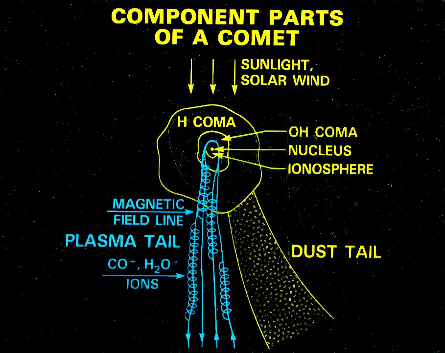 This diagram shows the components of a comet: Nucleus, ionosphere, OH coma, H coma, dust tail and plasma tail with magnetic field lines. The date is ±5 years.